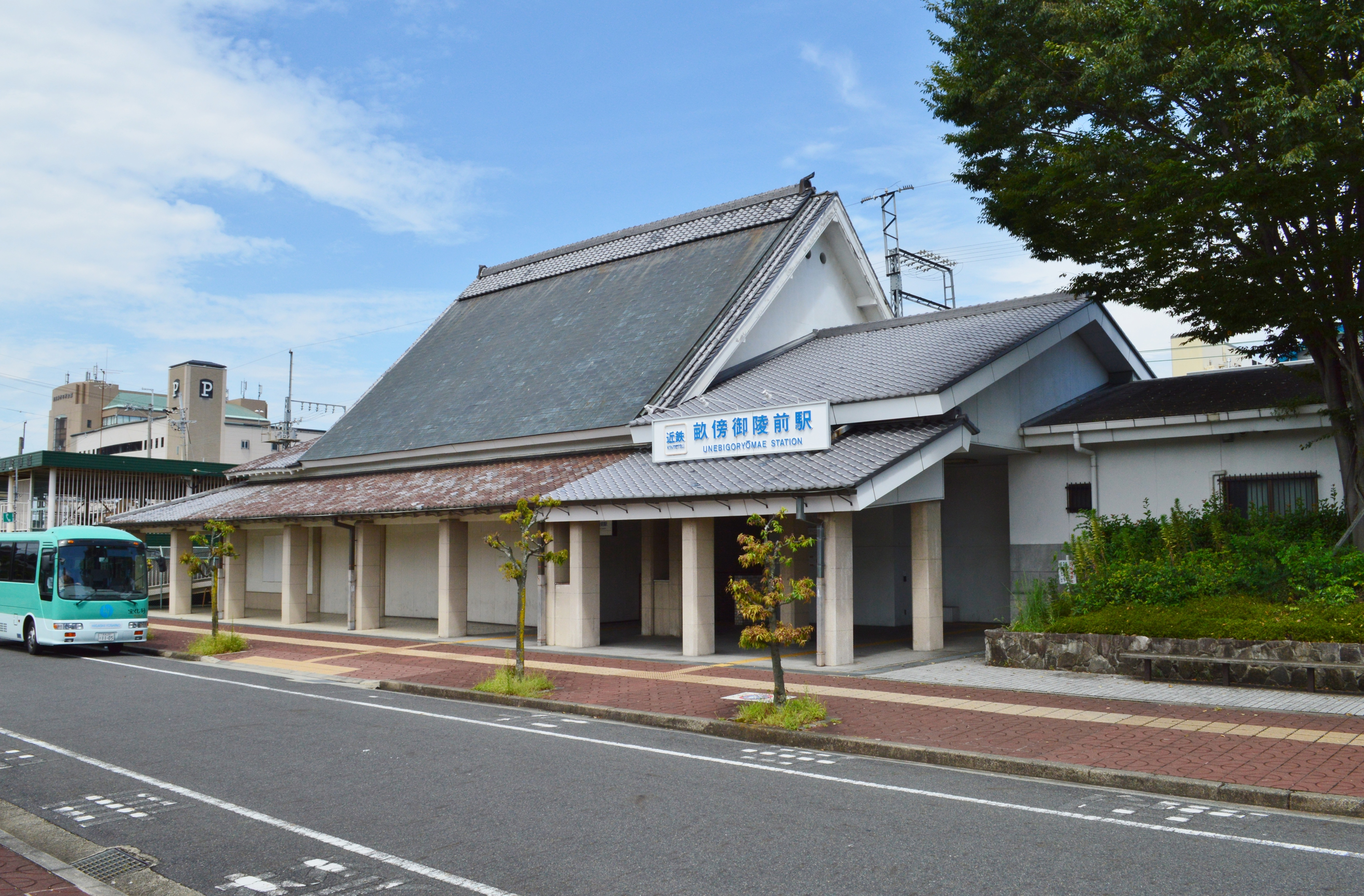 Unebigoryomae Station on the Kintetsu Kashihara Line, in Kashihara, Nara Prefecture, Japan